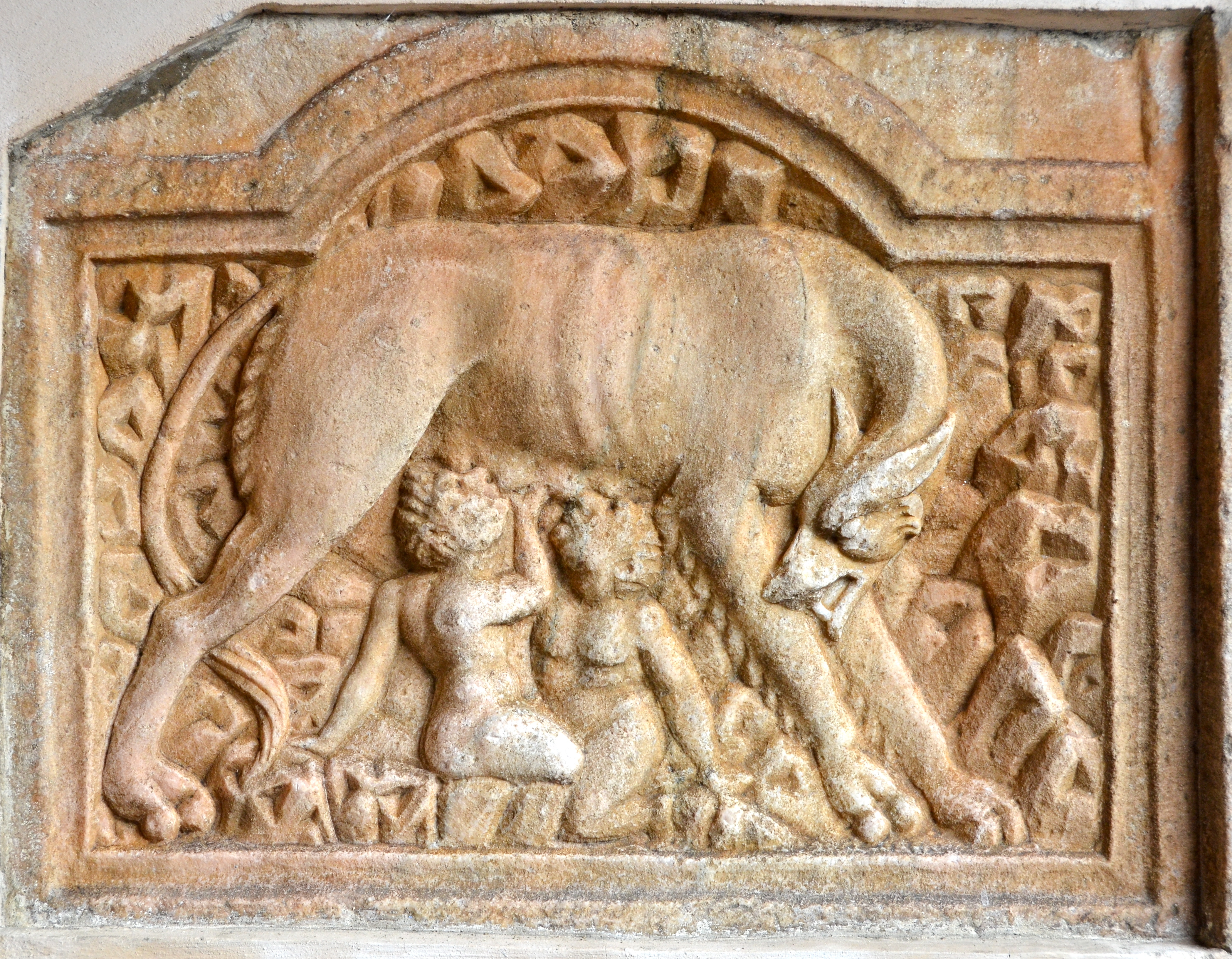 Roman stone relief showing the she-wolf with the twins Romulus and Remus on the right inner side of the south portal`s porch at the pilgrimage church the Assumption, market town Maria Saal, district Klagenfurt Land, Carinthia / Austria / EU